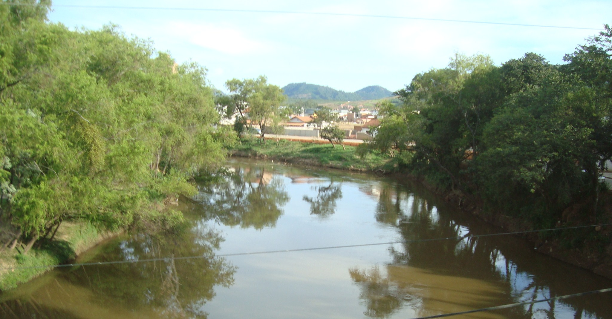 Sapucai River in Santa Rita do Sapucai, Minas Gerais, Brazil